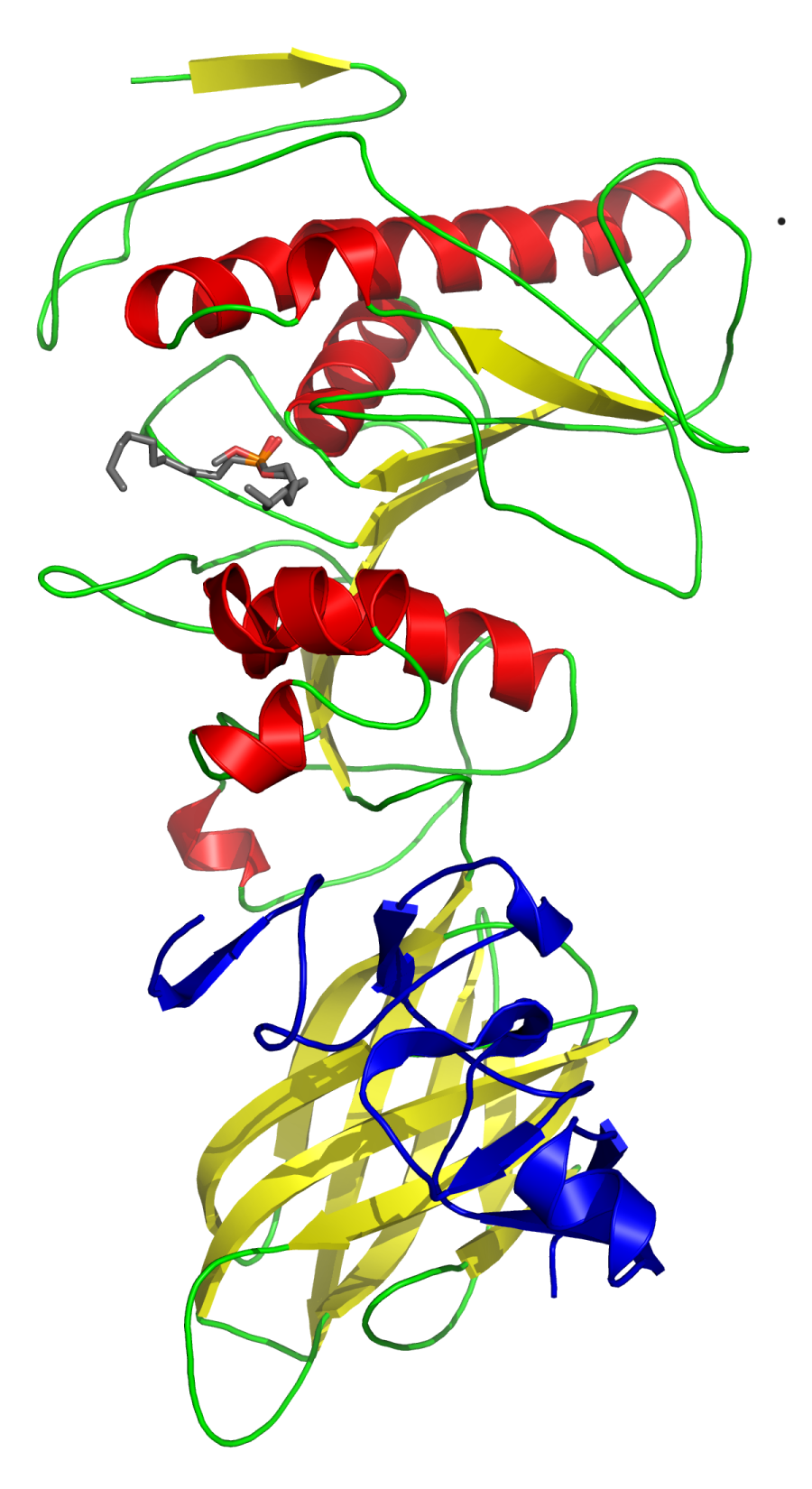 Cartoon diagram of human pancreatic lipase (colored by secondary structure: alpha helices in red, beta sheets in yellow, and random coil in green) in complex with pig colipase (colored blue) and a small molecule inhibitor. Created using PyMOL ( and GIMP.